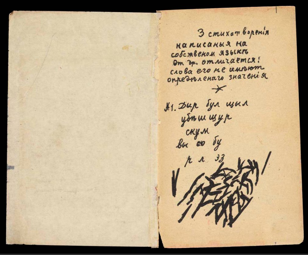 Kruchenykh-Larionov1